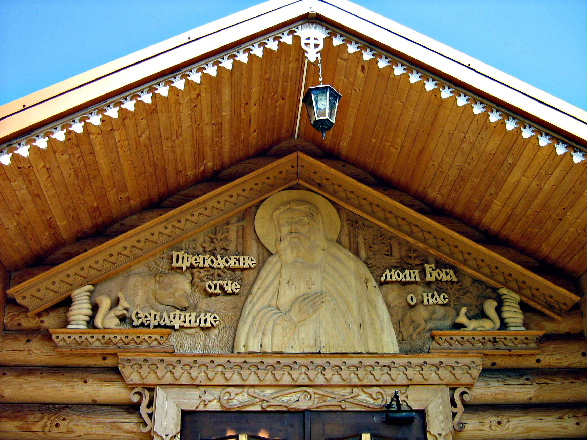 Kyzyltash. Crimea. Monastery. 2011 year.